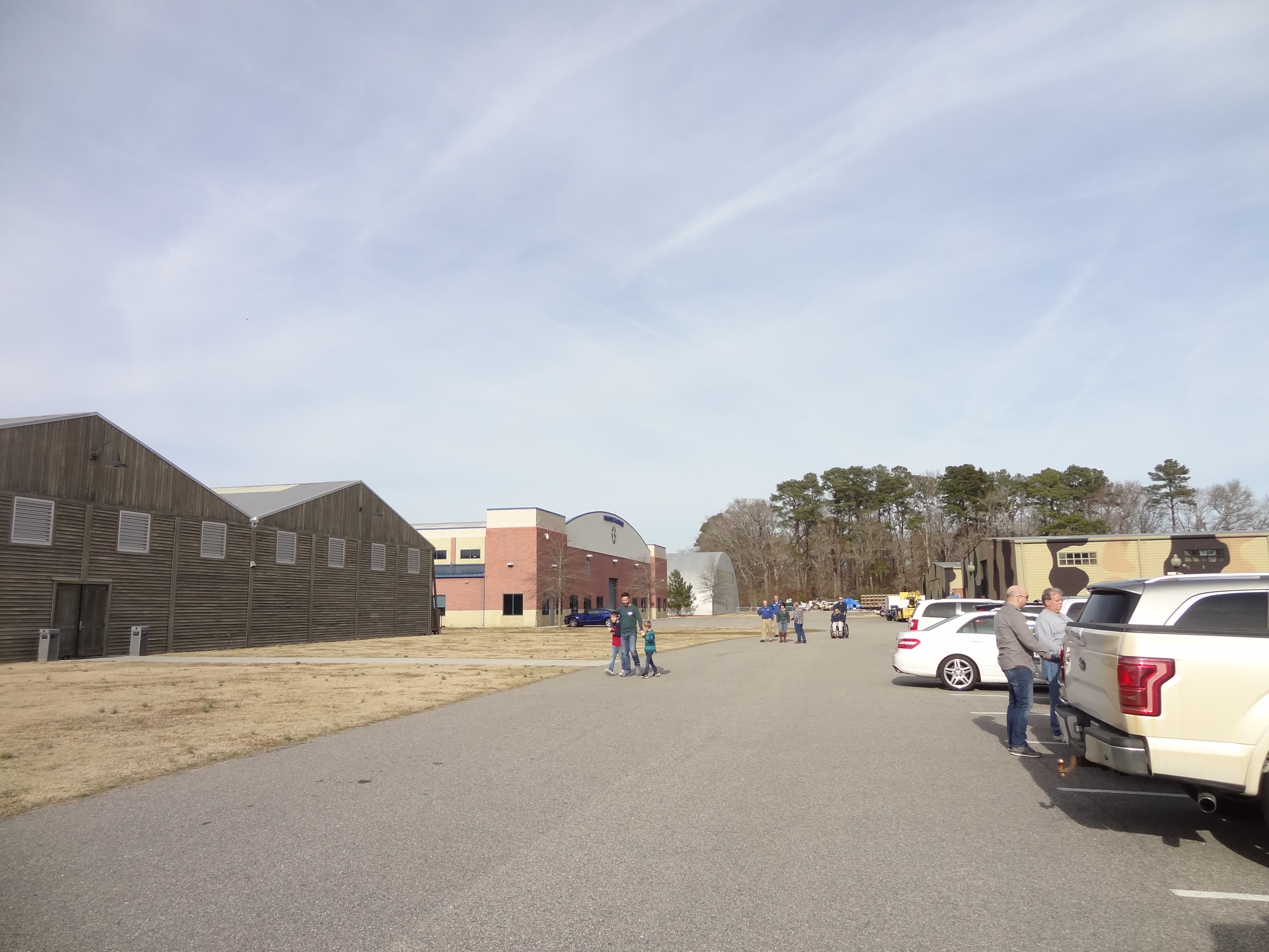 Hangars located at the Military Aviation Museum at Virginia Beach VA